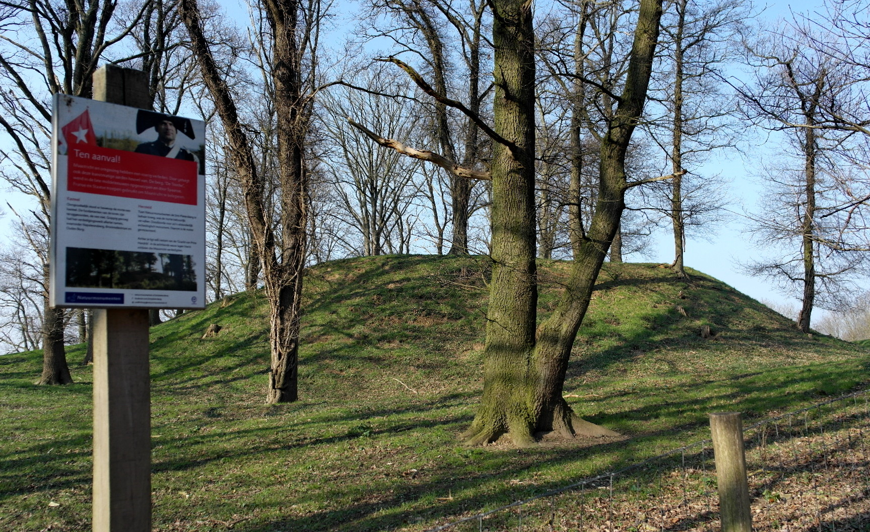 Remains of motte-and-baily castle De Thombe on the hill Sint Pietersberg in Maastricht, the Netherlands. Nothing remains of the Medieval keep but the motte was re-used in later centuries during various sieges.